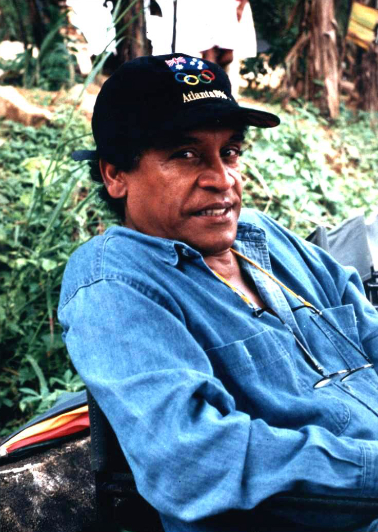 Chandran Rutnam